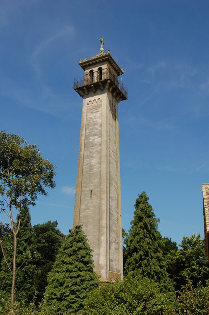 Somerset Monument, Hawkesbury Upton It was built in 1846 by Lewis Vulliamy and stands in memory of Robert Edward Henry Somerset, a nephew of the Sixth Duke of Beaufort who was a general at Waterloo and who died in 1842.